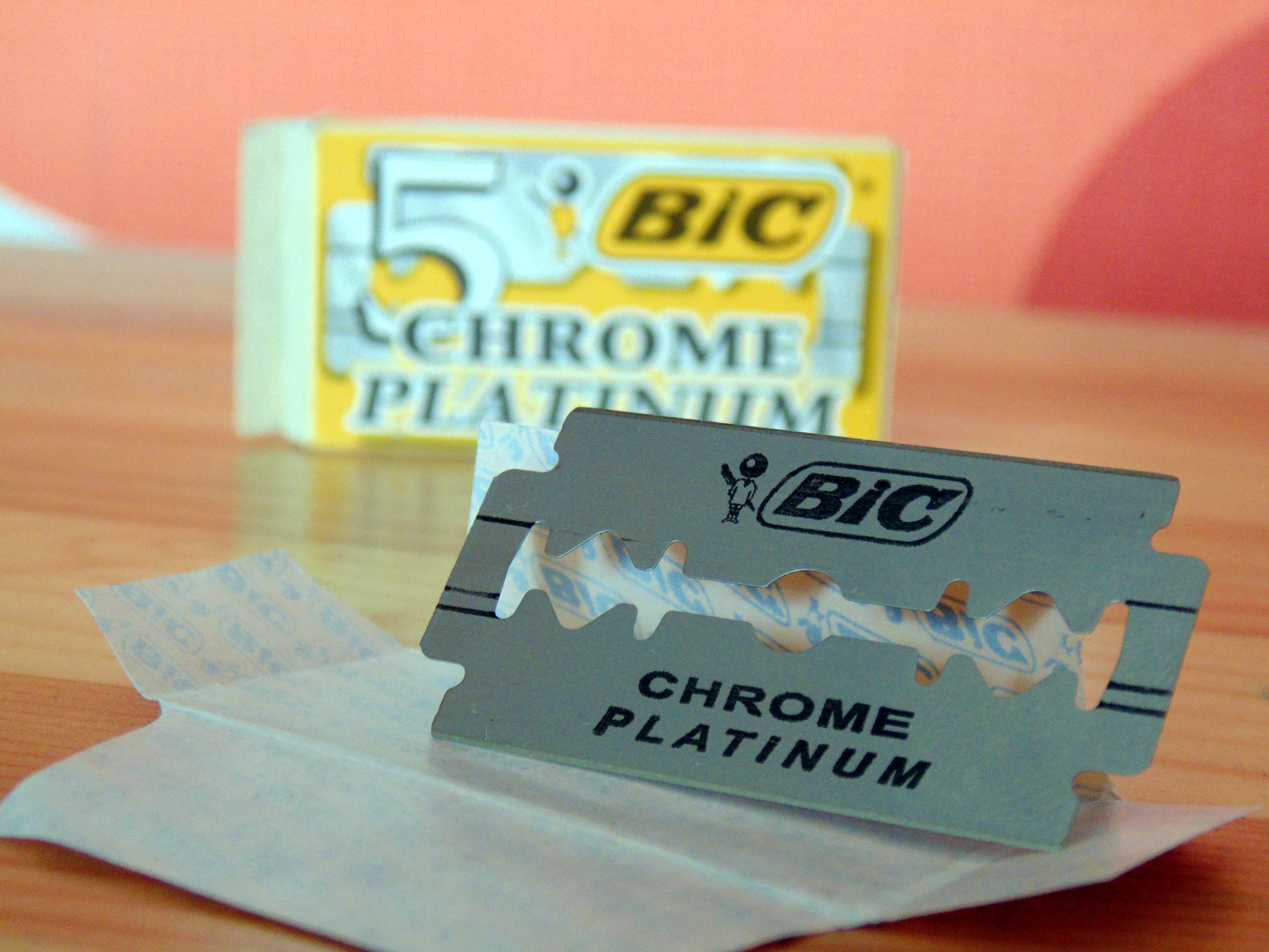 A double-edged safety razor blade manufactured by Société Bic.